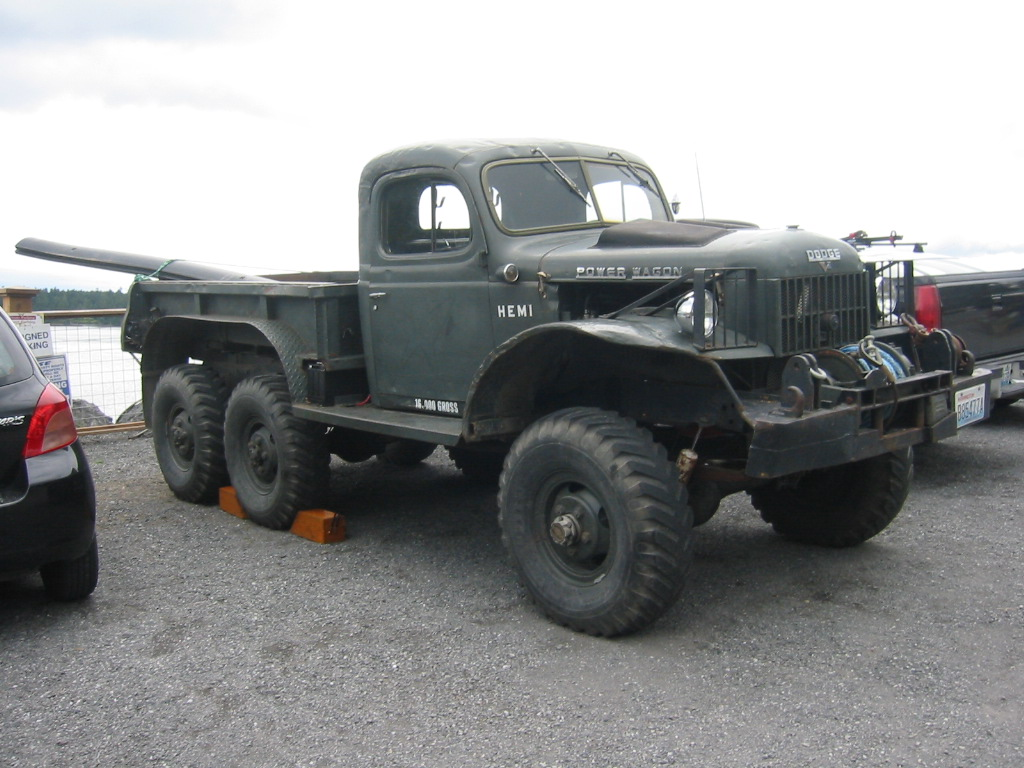 Dodge Power Wagon on Orcas Island, WA 2007. It's got a hemi??